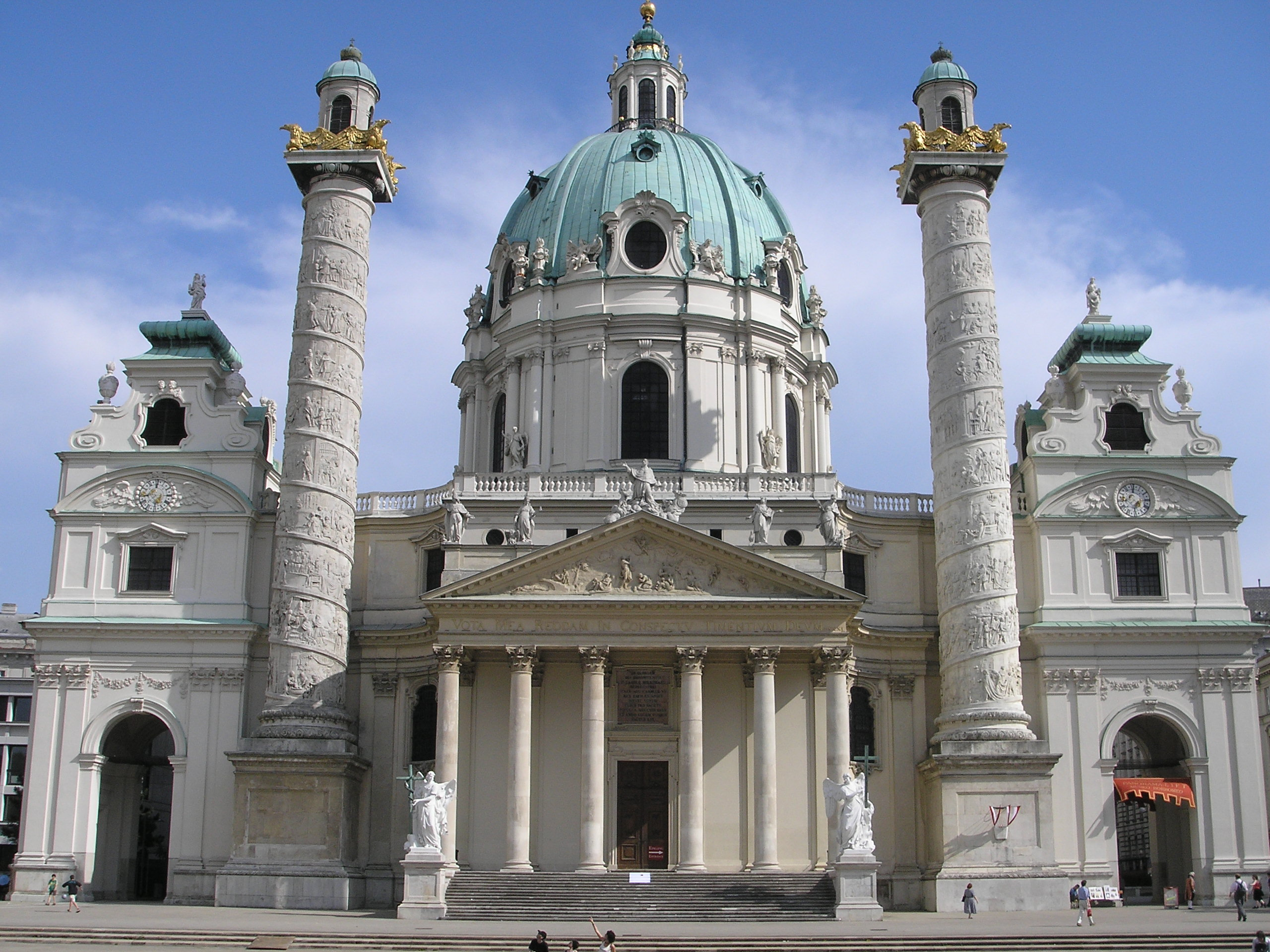 Austria, Vienna, St. Charles's Church